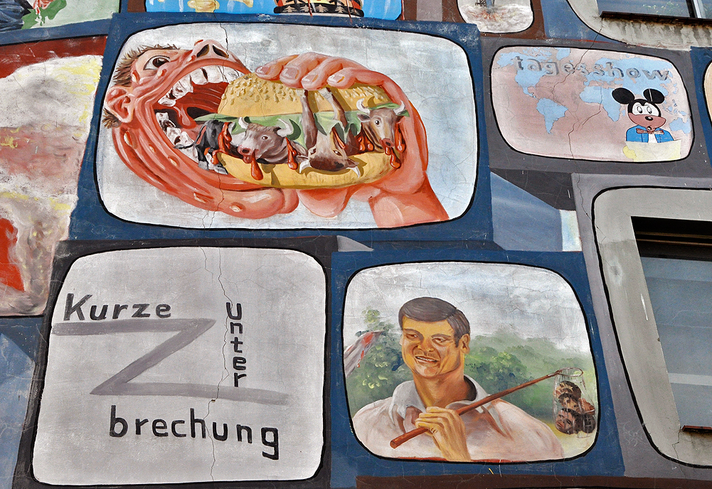 Commercial graffiti, Berlin